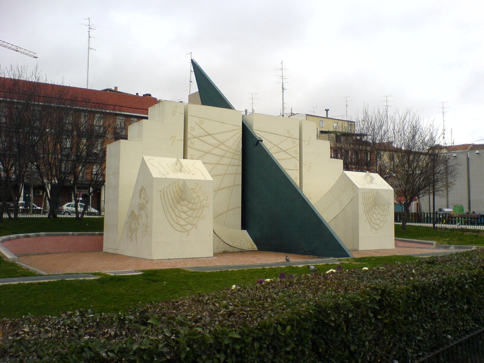 Group of four sundials and two moondials at the Glorieta de la Puerta de Toledo (a roundabout) in Madrid (Spain). It's a work by Juan José Caurcel and Alberto Corazón, and it was inaugurated on March 22, 1988.